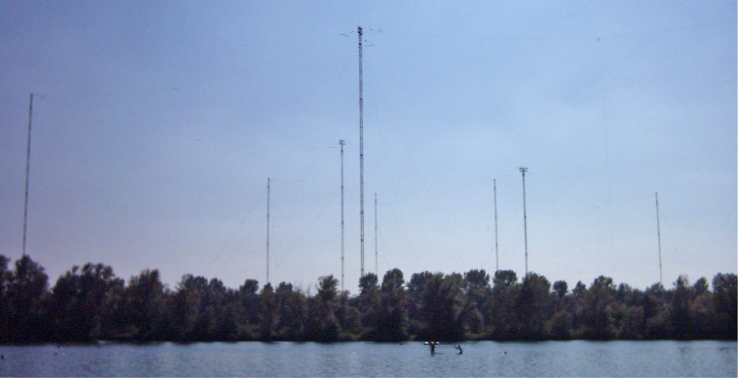 Transmission towers near Mainflingen